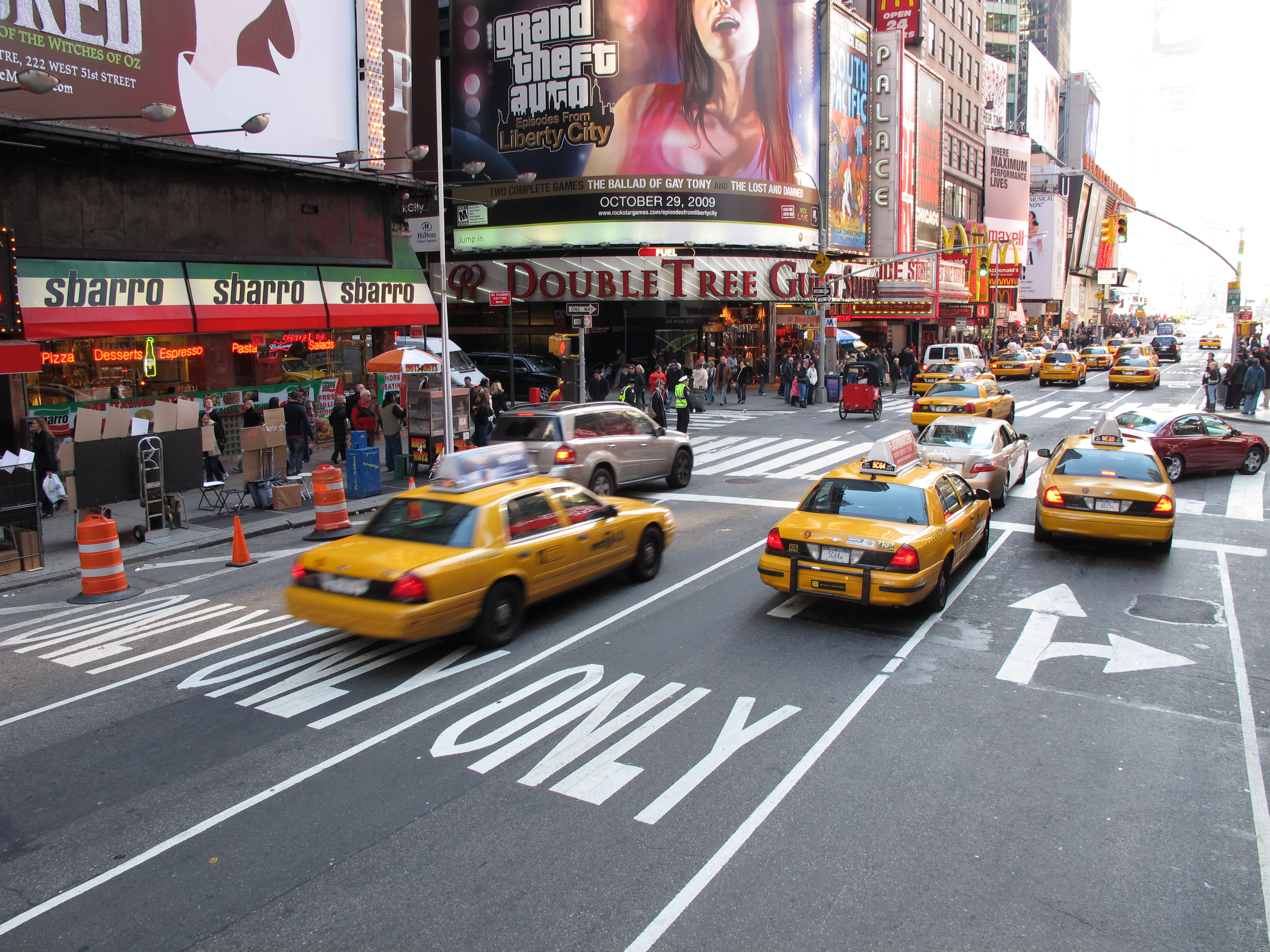 Manhattan, New York City